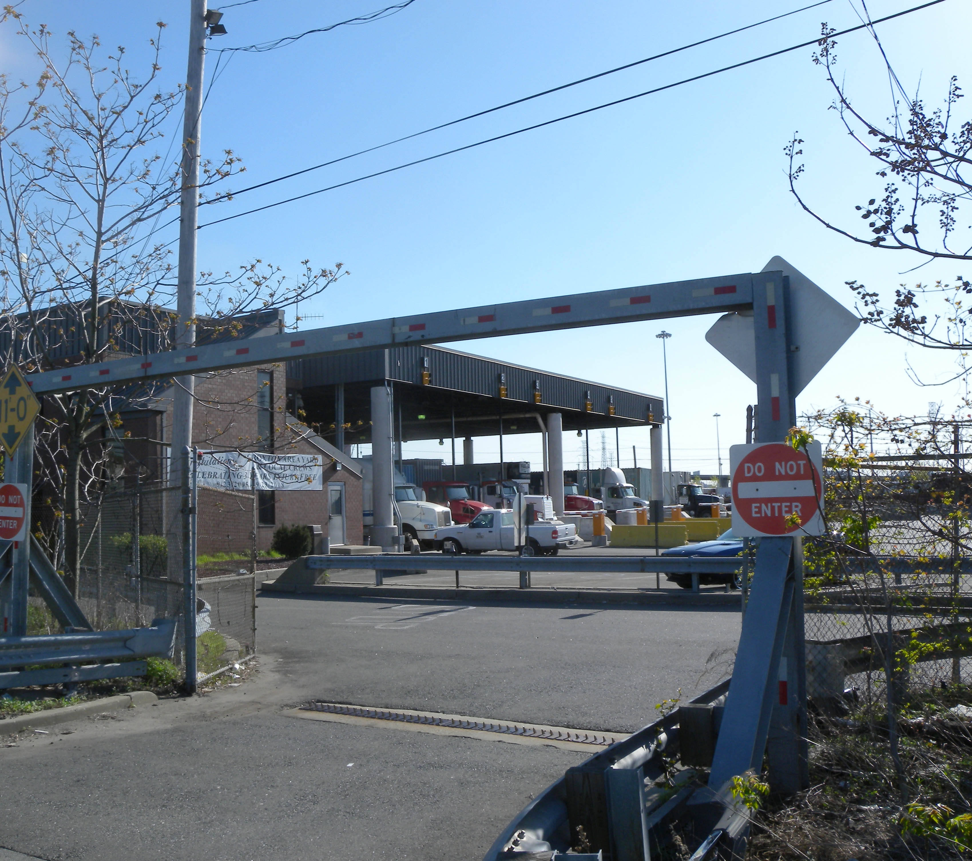 Looking southwest into Croxton Yard (North Jersey Intermodal Terminal) on a sunny afternoon.